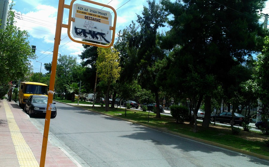 petroupoli